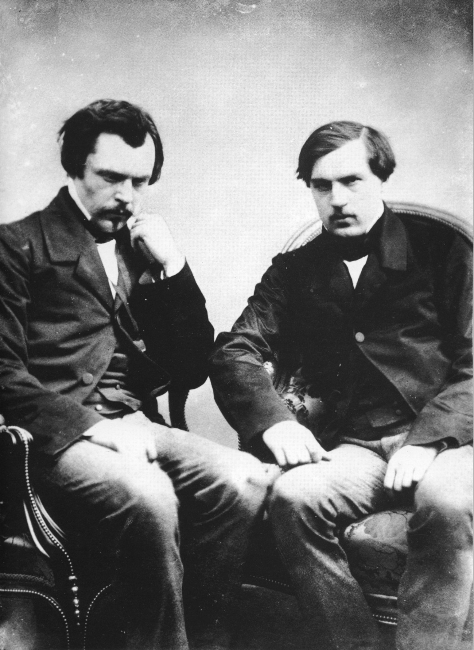 Photography of Edmond (left) and Jules (right) de Goncourt by Félix Nadar